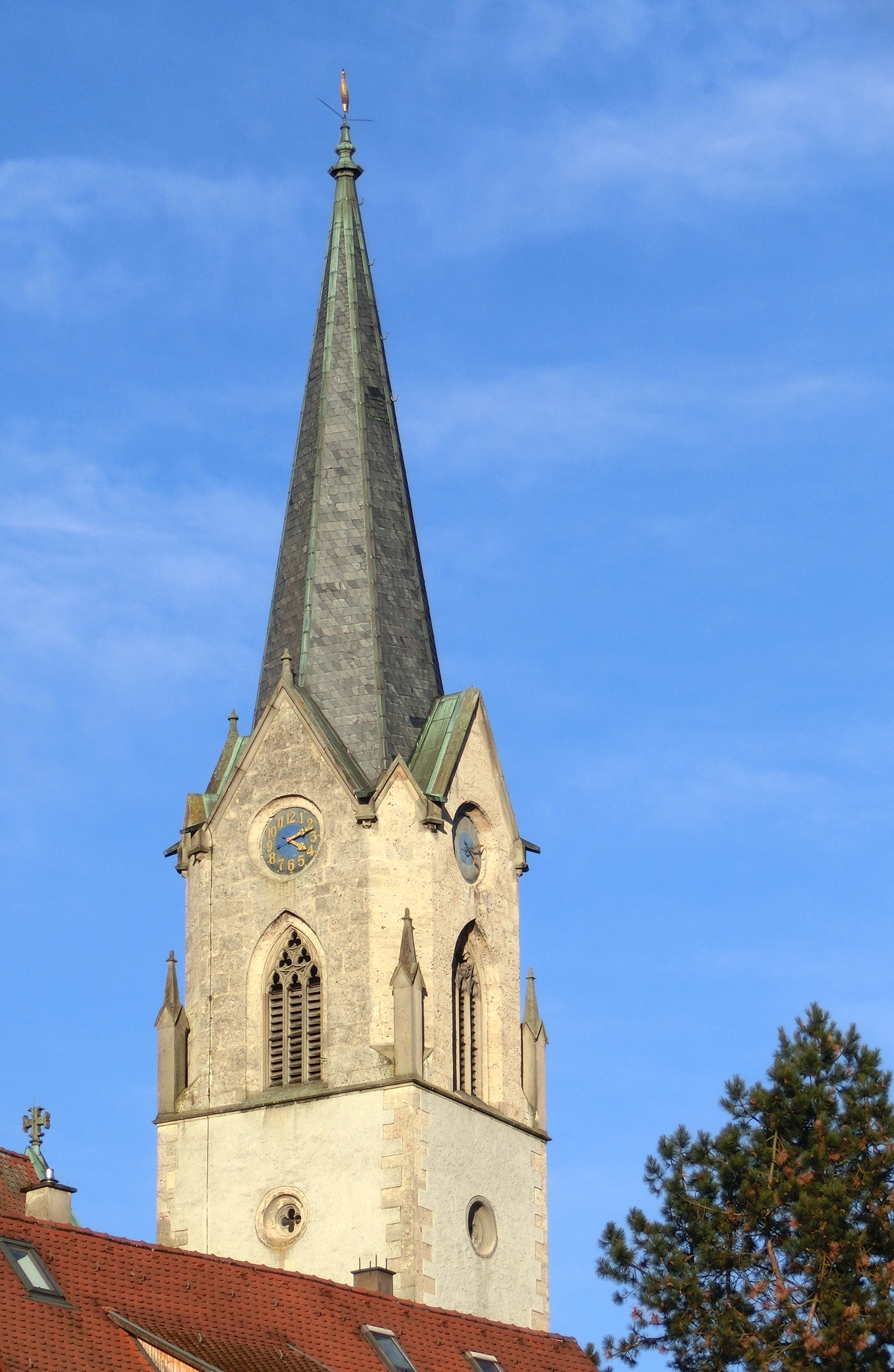 The tower of the Protestant church of Lustnau, subdivision of Tübingen, Baden-Württemberg.